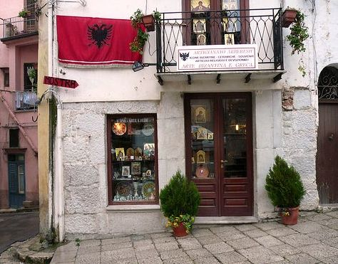 Characteristic craft workshop Albanian, Greek and Byzantine art.